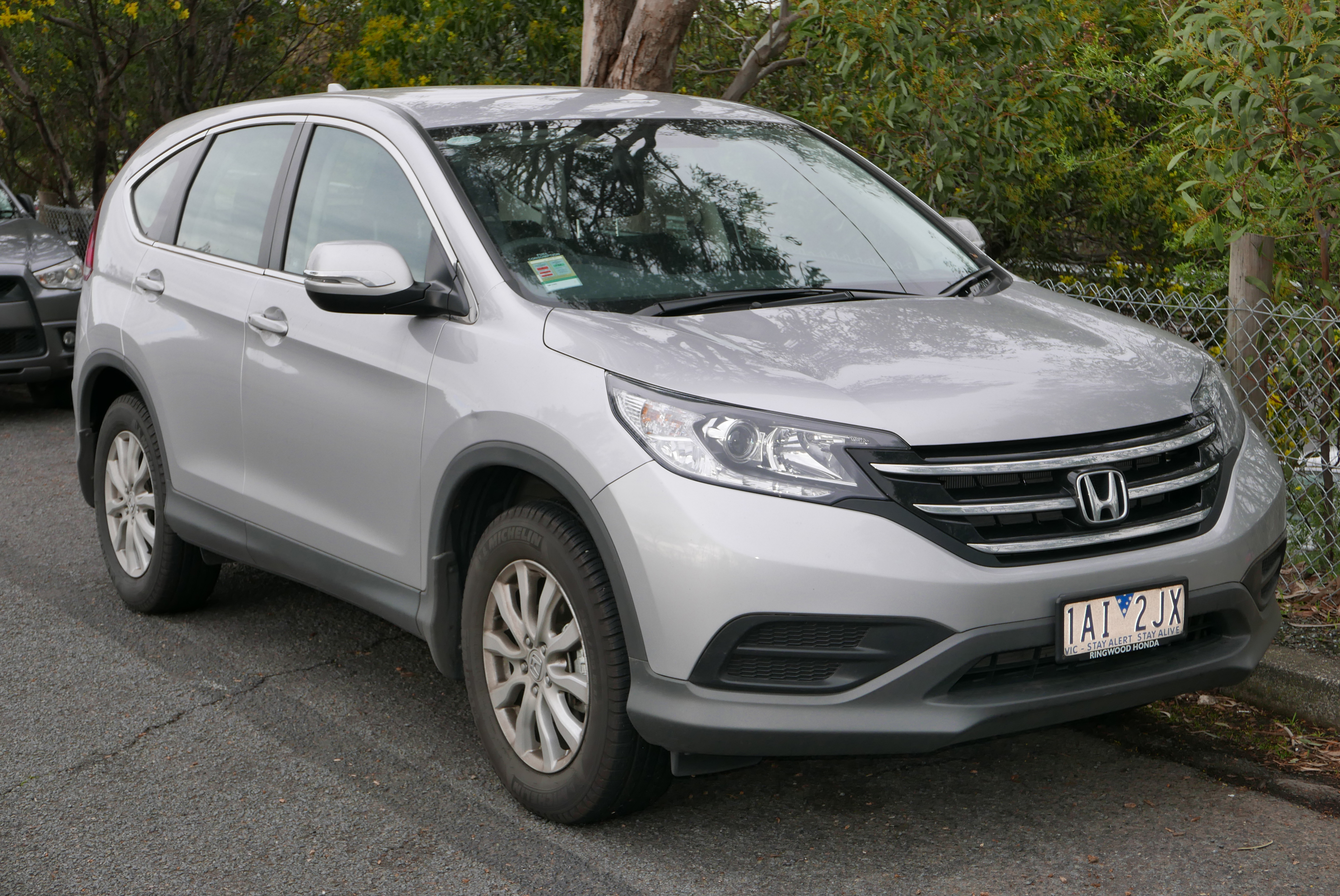 2014 Honda CR-V (RM MY15) VTi 2.0 2WD wagon. Photographed in Kew, Victoria, Australia. Vehicle registration enquiry resultsJurisdictionVictoriaRegistration1AI2JXChassis codeMRHRM1750FP060105Engine codeR20A59801543Compliance date2014-01Year of manufacture2014